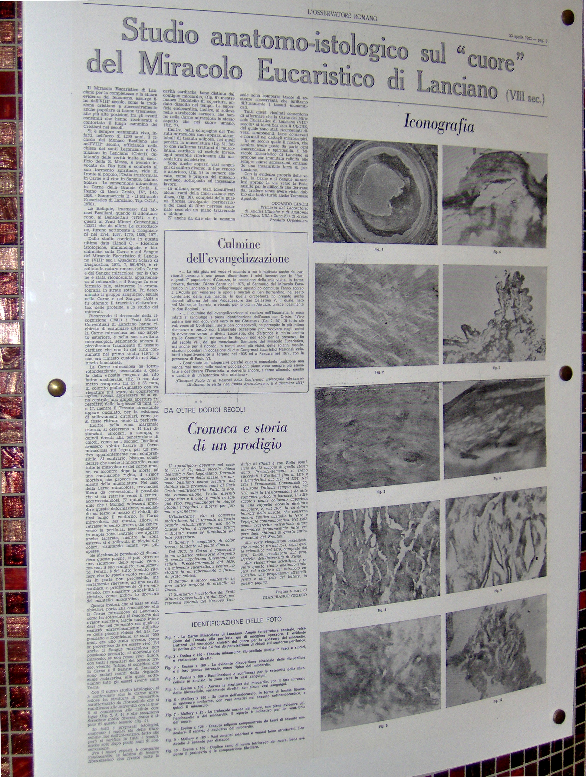 Eucharistic Miracle of Lanciano - public documentation - L'Osservatore Romano Made by myself. The panel is public for all visitors.